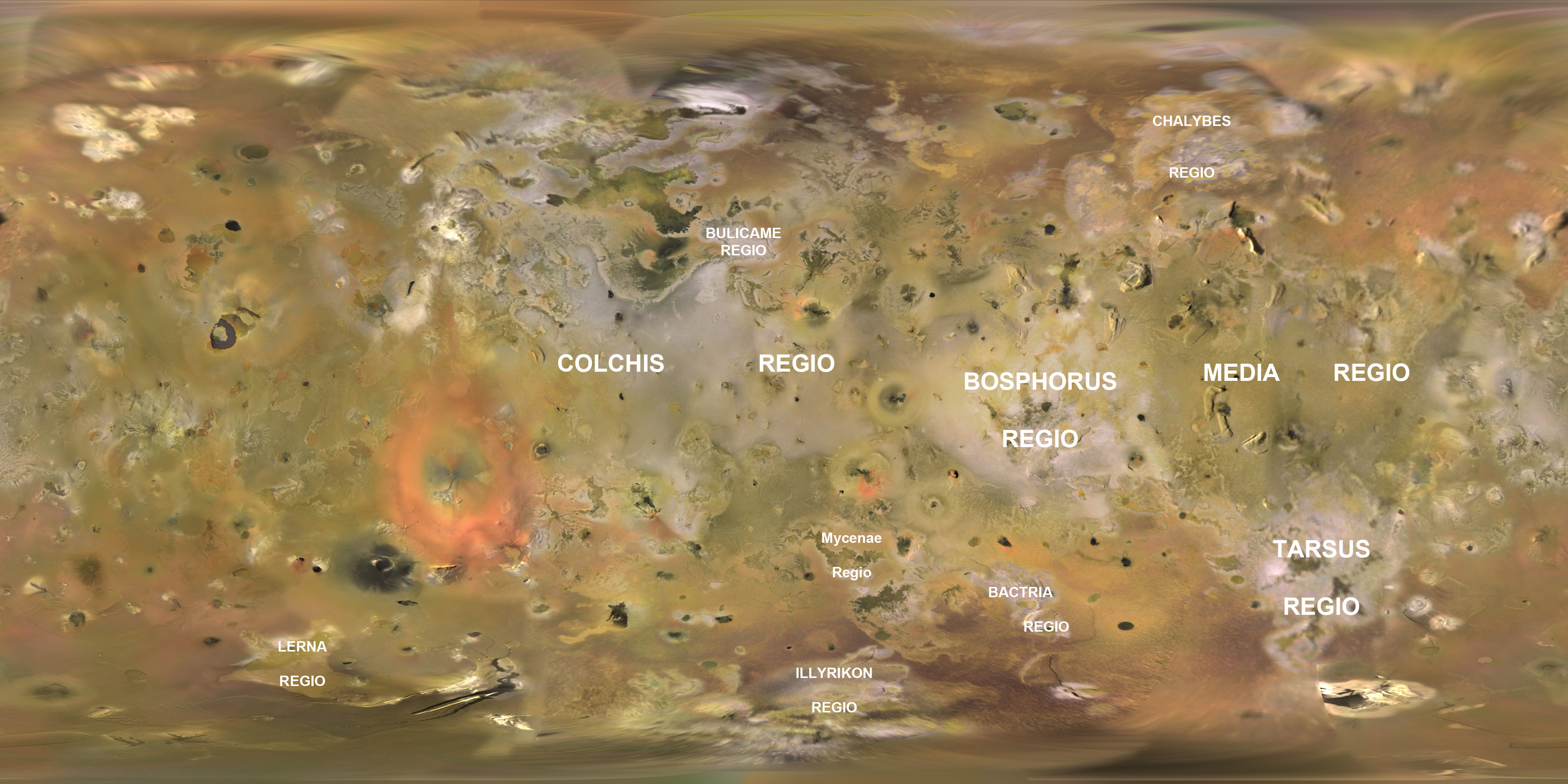 Base map of Jupiter's moon Io created from Voyager and Galileo imagery. Original map created by the USGS Astrogeology group in Flagstaff, Arizona. Labels for regions on Io added by Submitter.